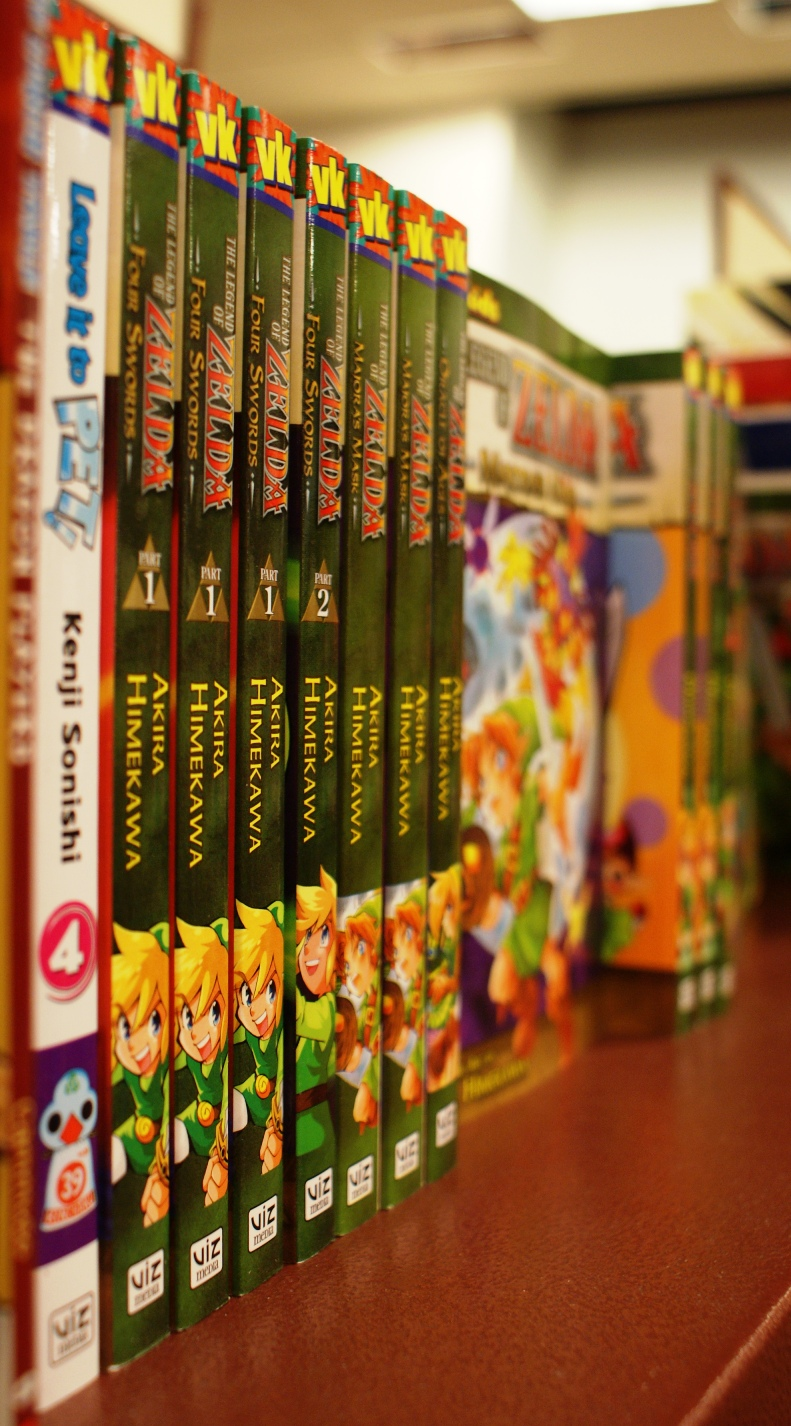 Zelda mangas Visiting Chapters D